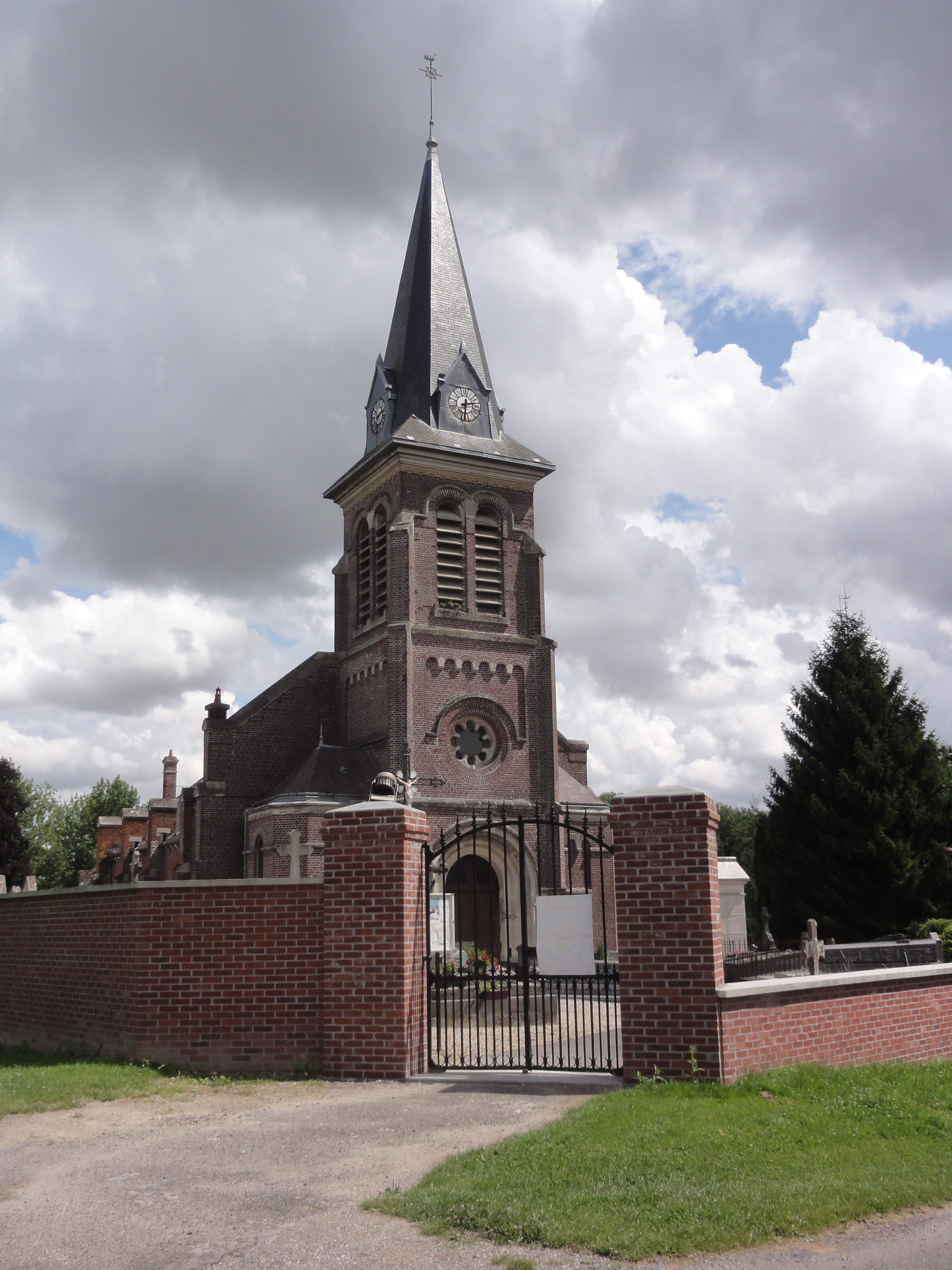 Tugny-et-Pont (Aisne) église Sainte-Eulalie-et-Saint-Aubert